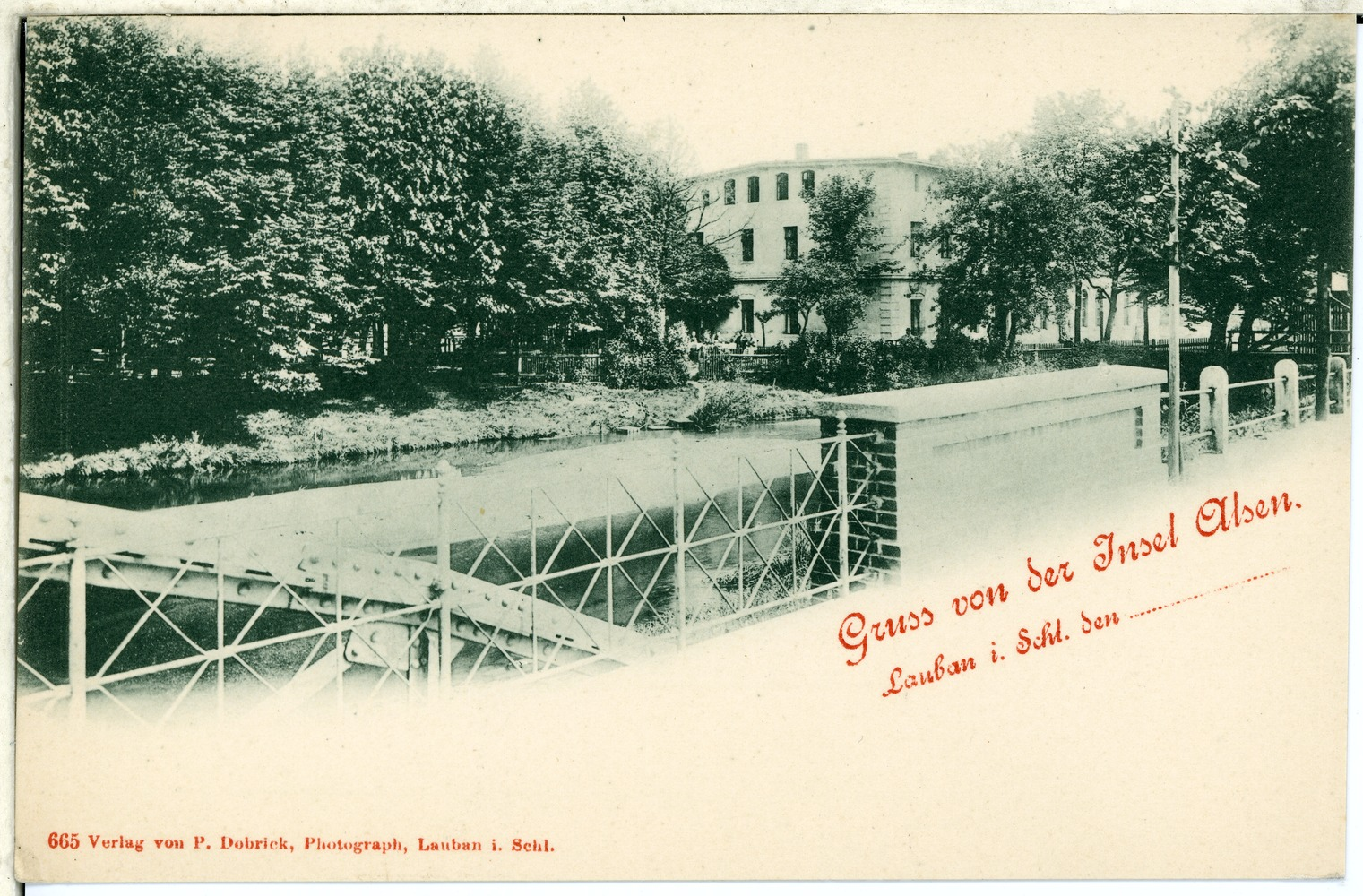 This postcard is from publisher Brück & Sohn in Meißen ( This postcard has a unique number 00665 and is available in a higher resolution at the publisher. This images was uploaded in a cooperation project between Wikipedians and the publisher.